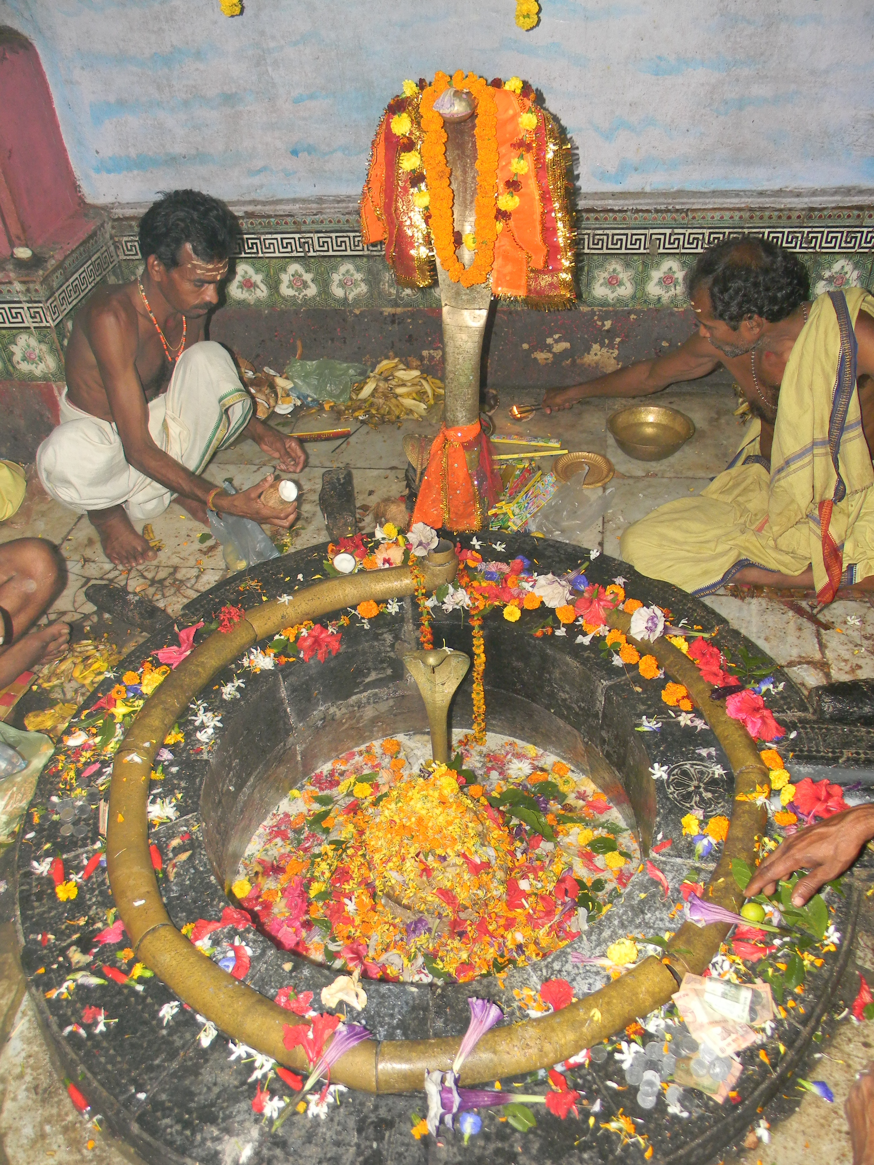 Lord Hatakeshwar Temple_Baghamari_Khordha_Odisha This media file is uploaded with Odia loves Wikipedia English |italiano |македонски |മലയാളം |ଓଡ଼ିଆ +/−